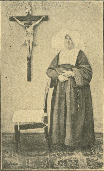 Daughter of Charity of Saint Vincent de Paul